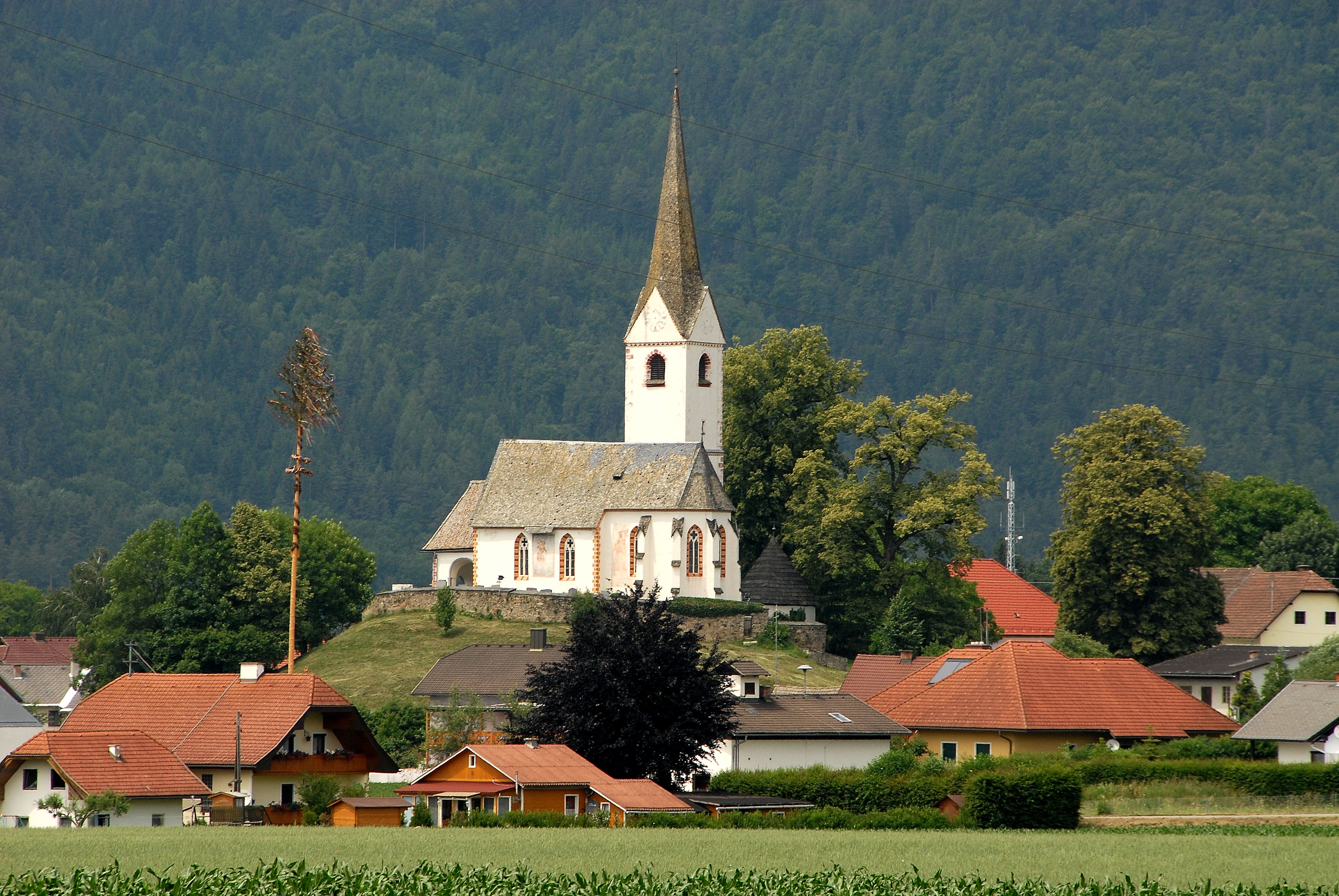 Parish church Saint Michael in Sankt Michael ob der Gurk, municipality Poggersdorf, district Klagenfurt Land, Carinthia, Austria, EU